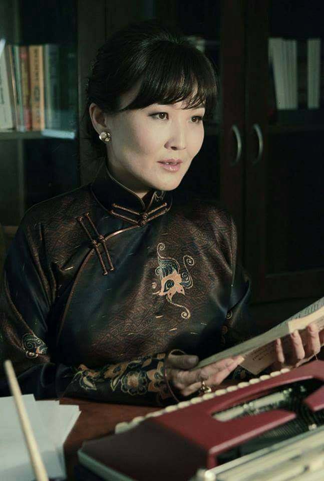 author and film maker B. Shuudertsetseg